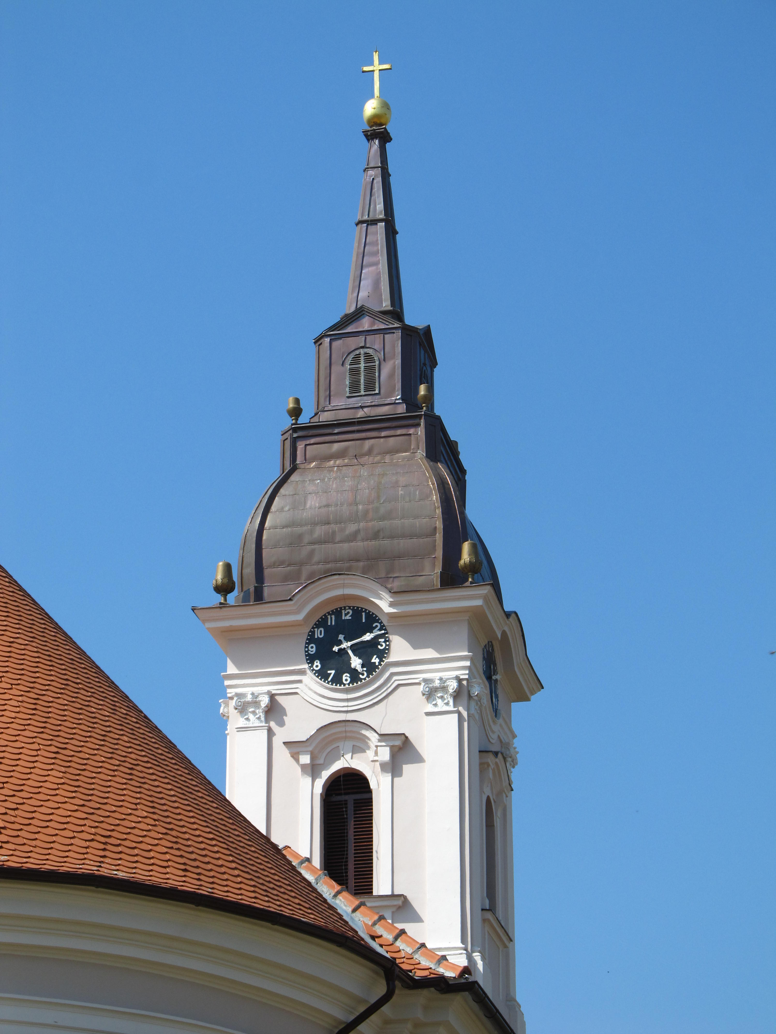 Serbian Orthodox church of Saint Nicholas in Tomaševac - bell tower